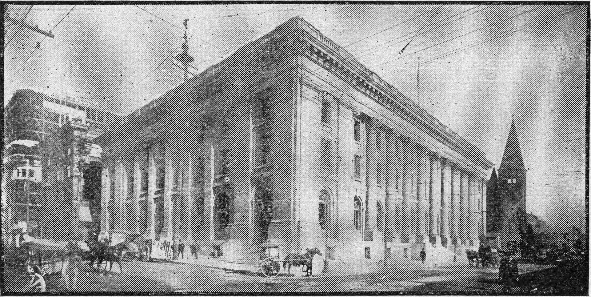 From the materials for the Alaska-Yukon-Pacific Exposition of 1909, held in Seattle. Picture: "Federal Building", later simply Seattle's main downtown post office, demolished in the late 1950s to make way for the present post office.